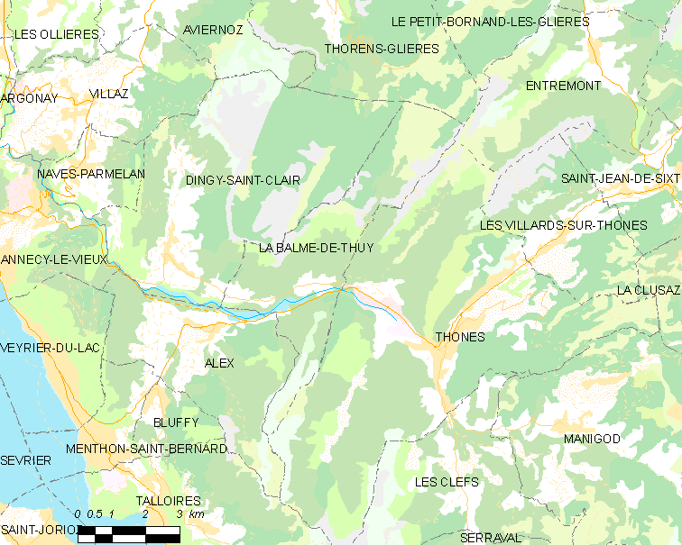 Map of French municipality La Balme-de-Thuy